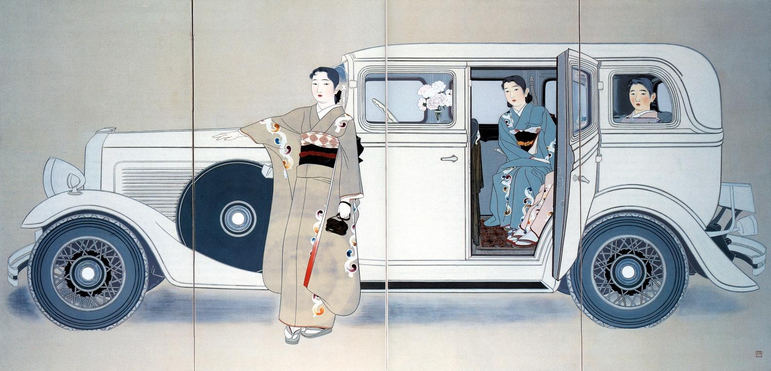 "Three Sisters", painted four-fold screen, Honolulu Museum of Art, accession 11822.1